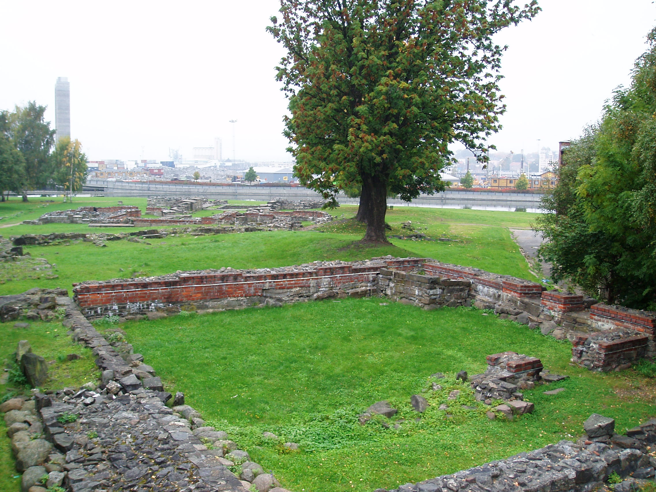 Ruins av the medieval royal residence in Oslo